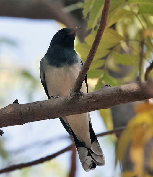 Black-headed Cuckooshrike Coracina melanoptera at Sindhrot in Vadodara District of Gujarat, India.